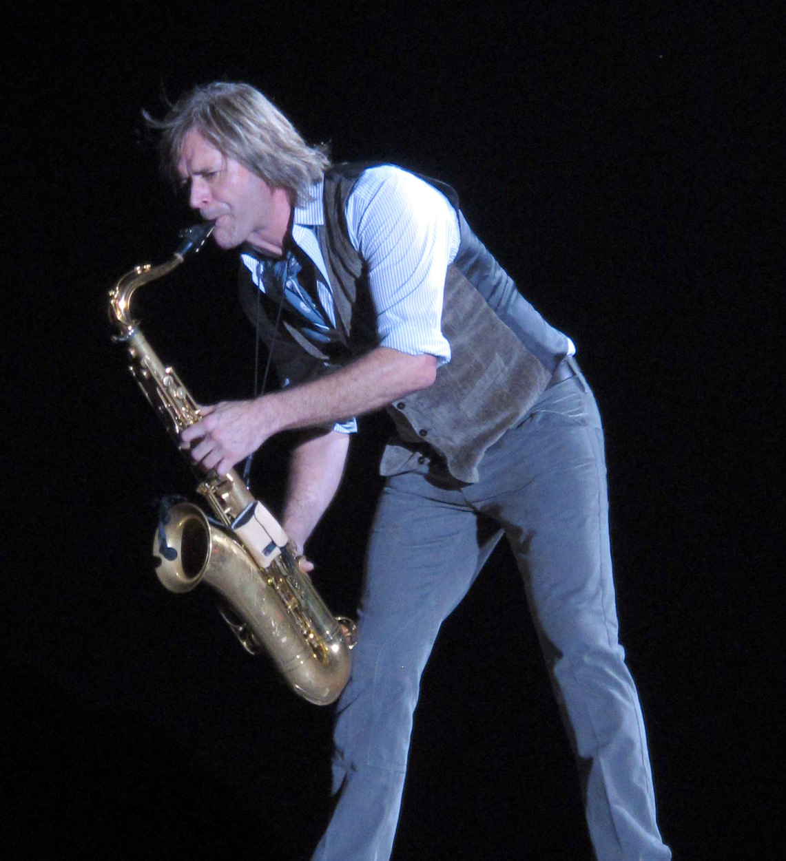 Steve Norman of Spandau Ballet, Liverpool, October 2009